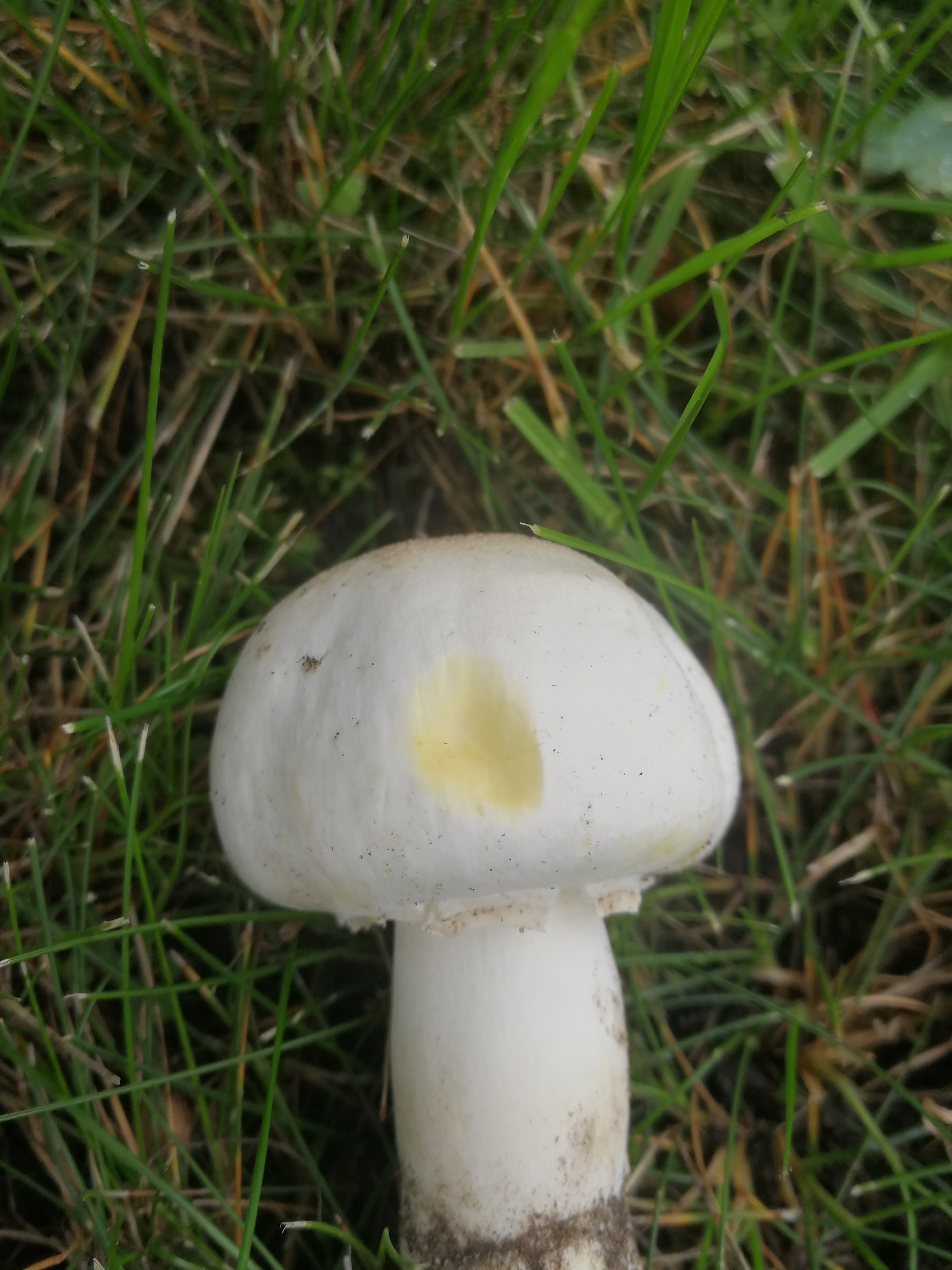 Yellow staining in Agaricus xanthodermus